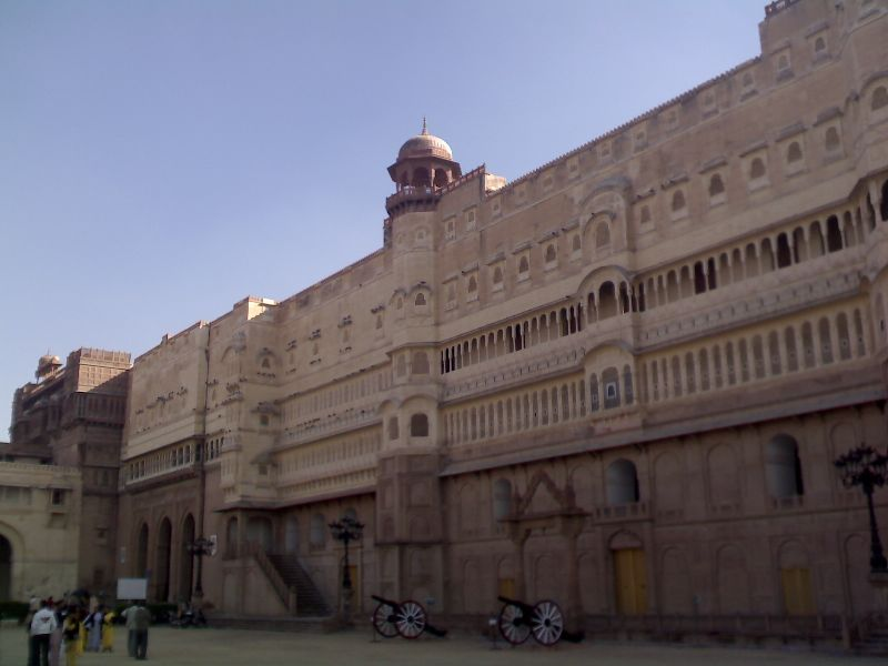 Junagarh Fort, Bikaner, Rajasthan, INDIA